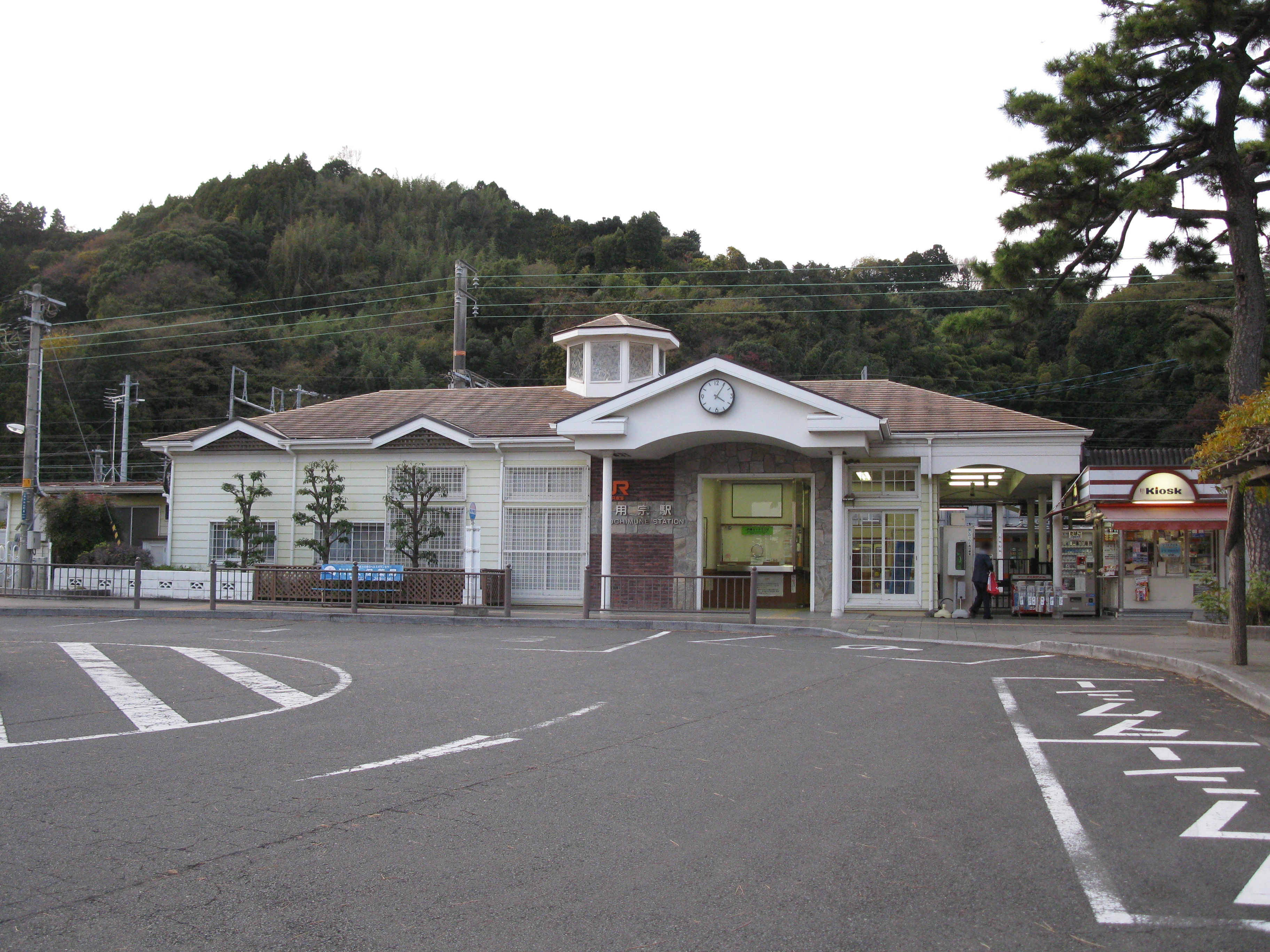 Mochimune Station building (Central Japan Railway(JR Central) Tōkaidō Main Line)